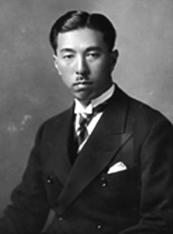 Japanese Prime Minister Fumimaro Konoe (1891–1945, in office 1937–39 and 1940–41)